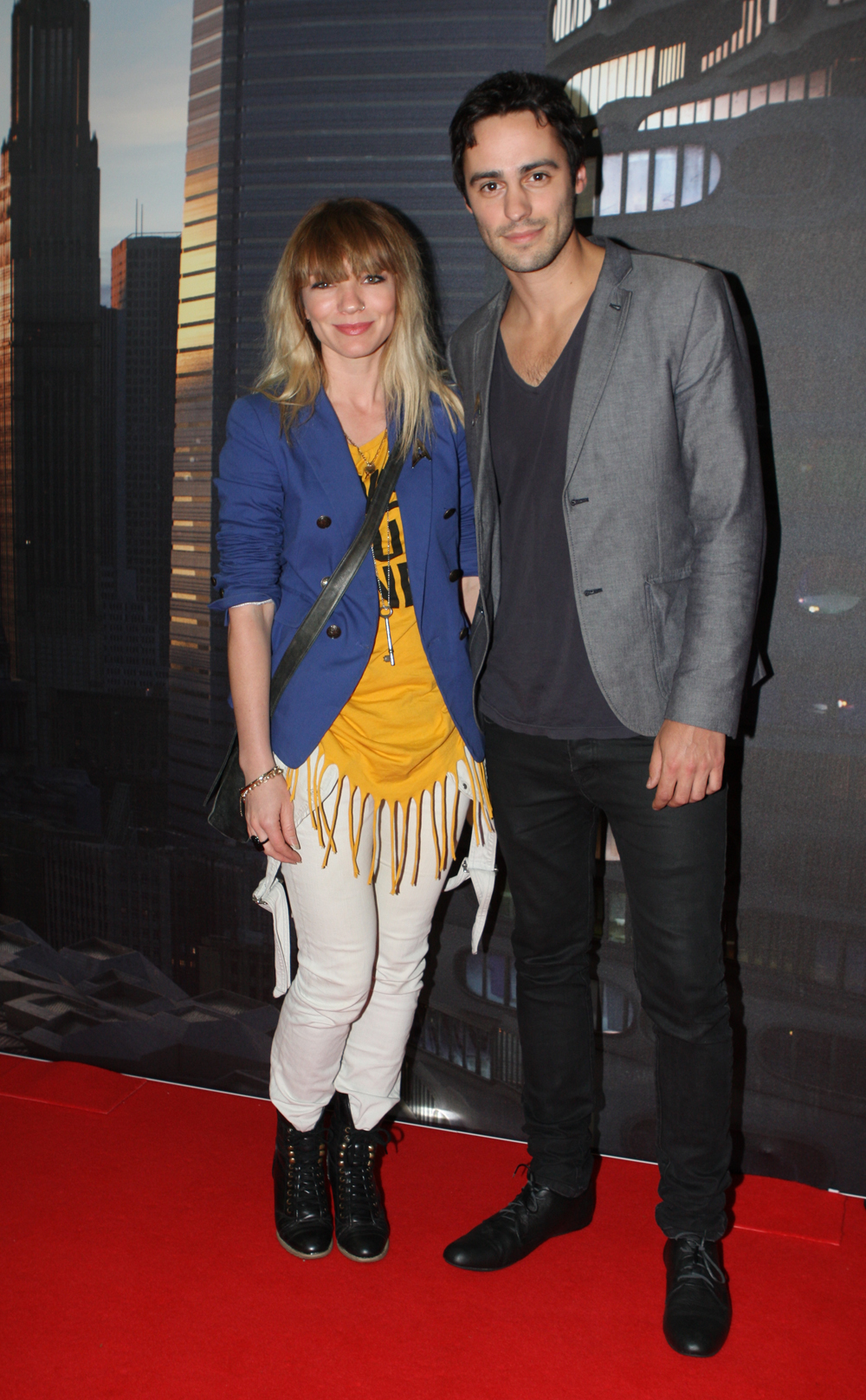 Richard Brancatisano and ?? at Star Trek Into Darkness Australian premiere